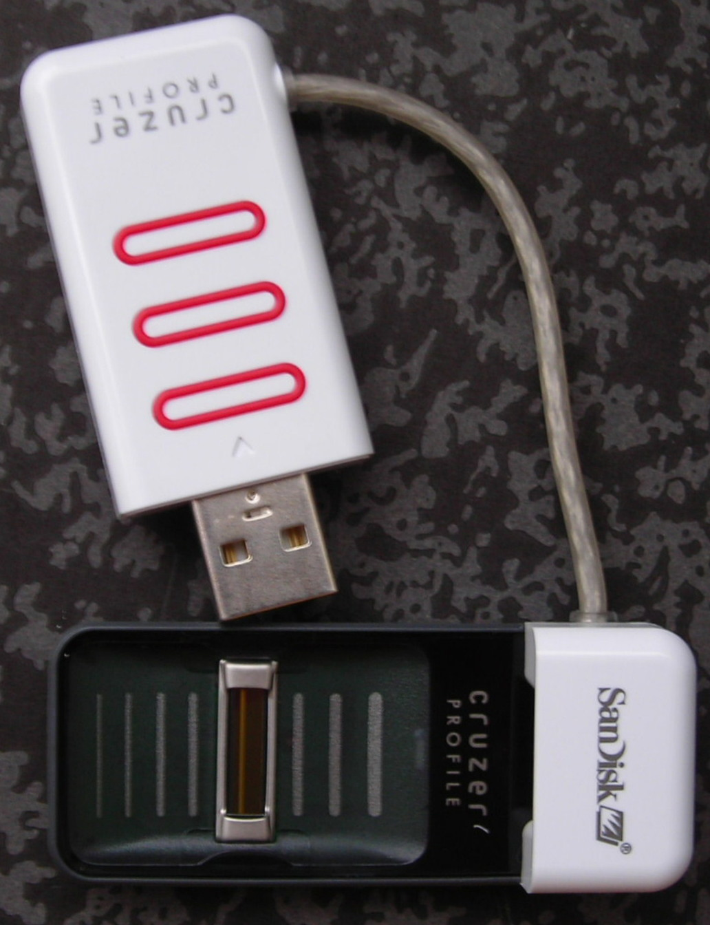 USB Flash Memory Drive SanDisk cruizer profile using biometric technology (one to ten fingerprints are required for authorization of the user)